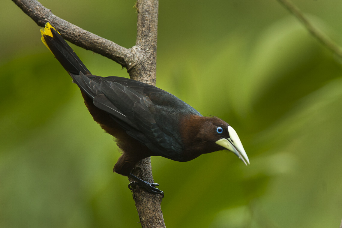 Chestnut-headed Oropendula - Panama_H8O0290